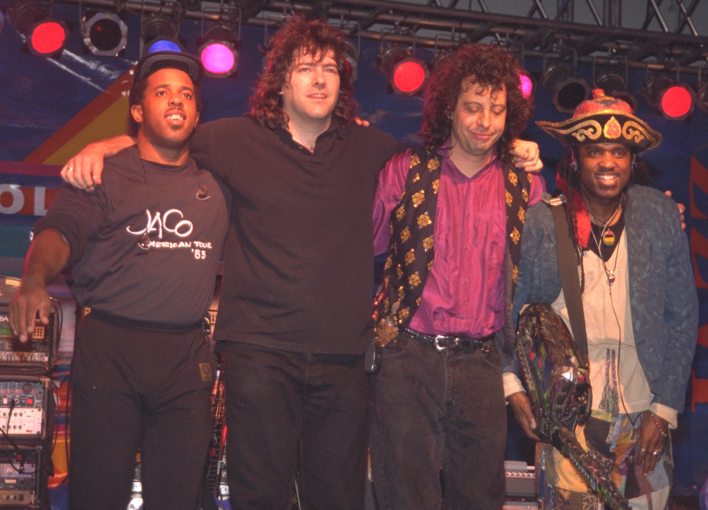 Béla Fleck and the Flecktones (with special guest Mike Marshall replacing. Jeff Coffin for this concert) performing at at the Hollywood Circle. Left to right: Victor Wooten (bass guitar), Béla Fleck (banjo), Mike Marshall (special guest - mandolin),Roy "Future Man" Wooten - drumitar, percussion, drums. Missing: Jeff Coffin - saxophones, oboe, flute, clarinet.